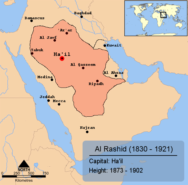 The Al-Rashid rule at its height. source from wikicommons: Image:Alrasheed_hail.jpg. I removed the Arabic script and added Latin script.